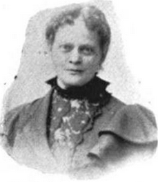 Kate Tuppper Galpin